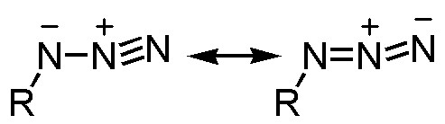 Description: Resonance of prganic azides. Source = Selfmade. Date = 30 Sep 2006. Made with ChemDraw.